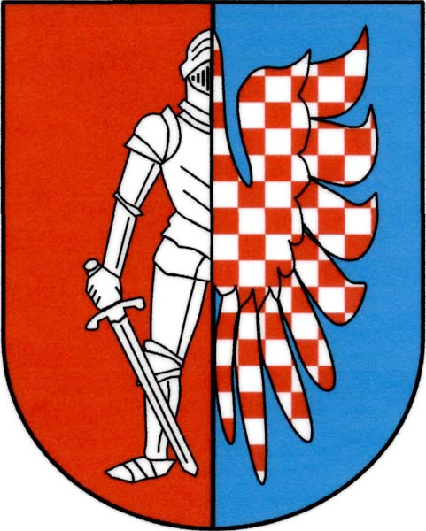 Coat of amrs of Všesulov , District Rakovník, Czech Republic